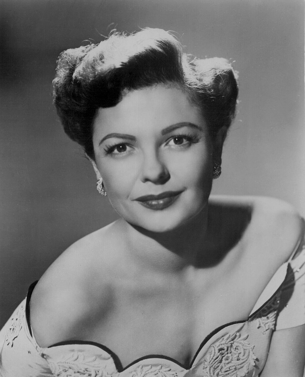 Publicity photo of Marjorie Reynolds